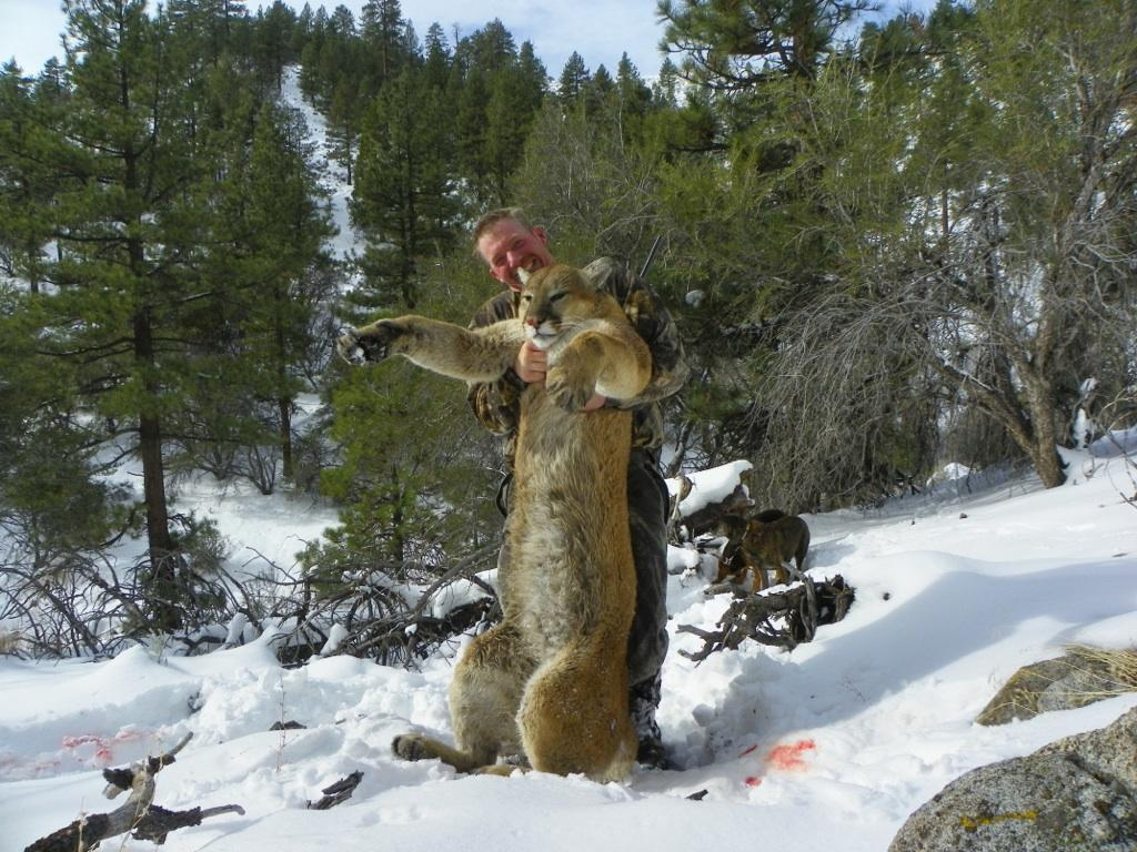 A hunted mountain lion (Puma concolor) in Nevada, USA.